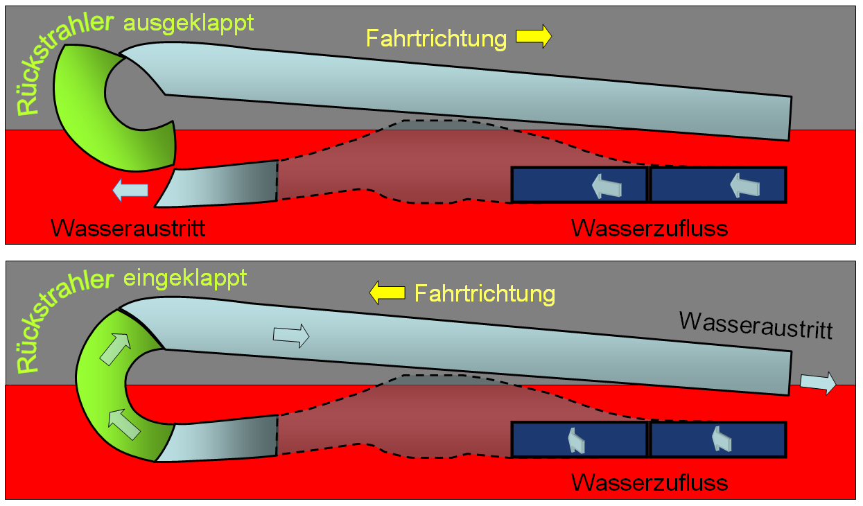 Zeuner water turbine (elevation). The red area is below the water. Water flow is shown for both forward (above) and rearward (below) operation